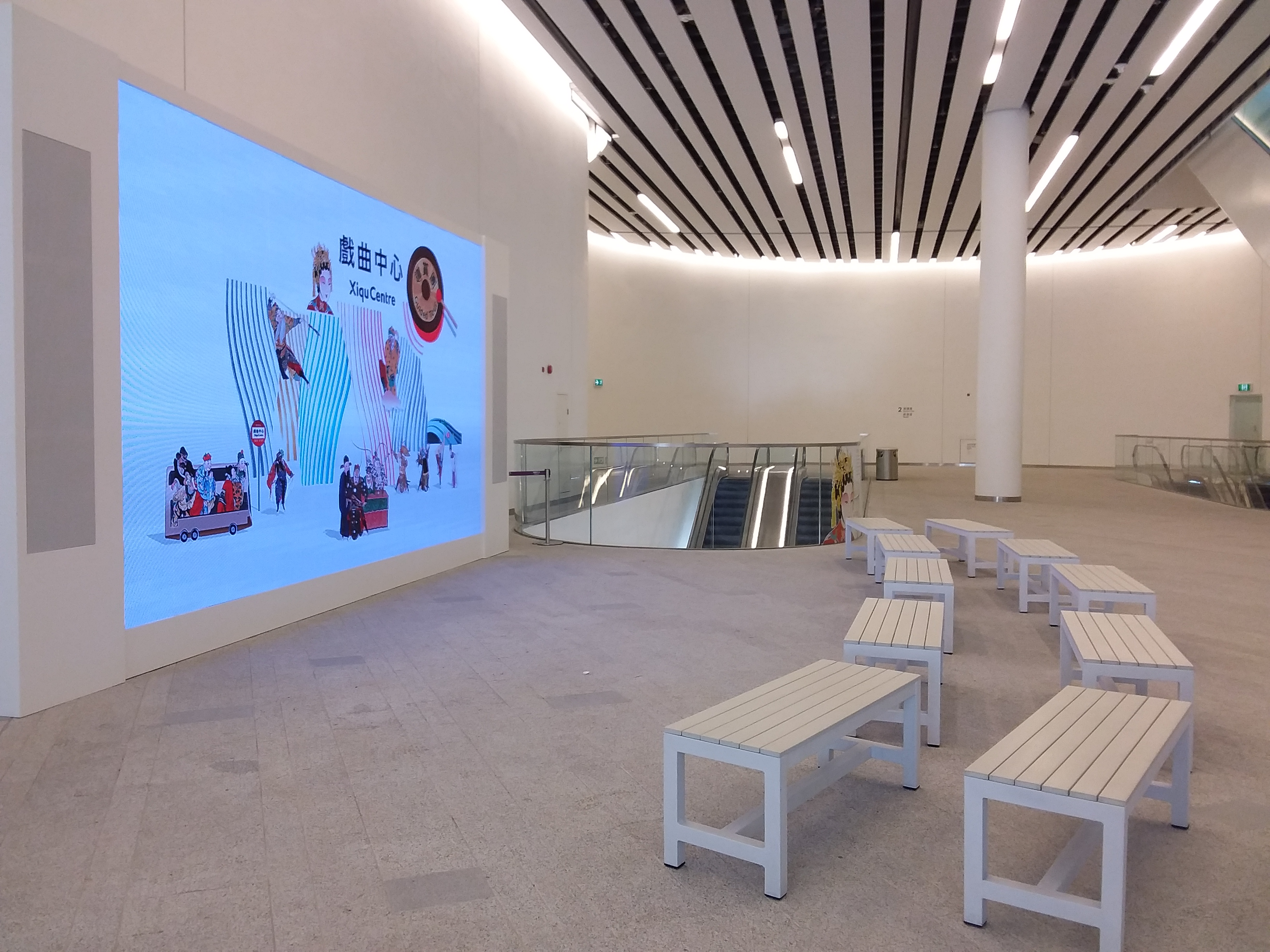 HK 香港 西九龍文化區 West Kln 戲曲中心 Xiqu Centre in Jan 2019